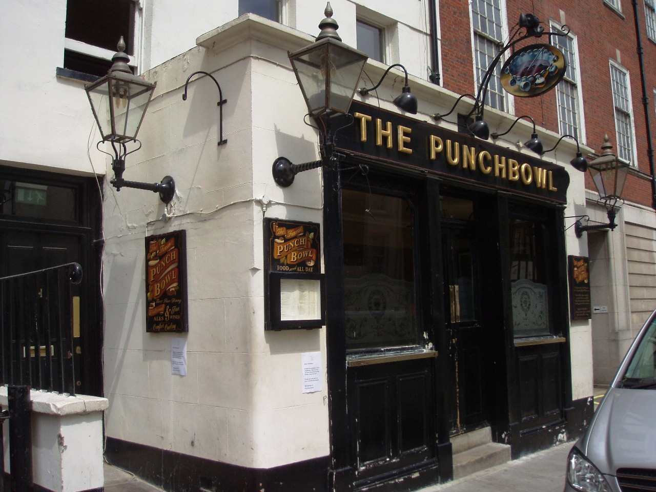 Recently refurbished pub in Mayfair. I understand it's owned by one Mr Guy Ritchie, a director of motion pictures. Address: 41 Farm Street. Links: Fancyapint Beer in the Evening Dead Pubs (history)